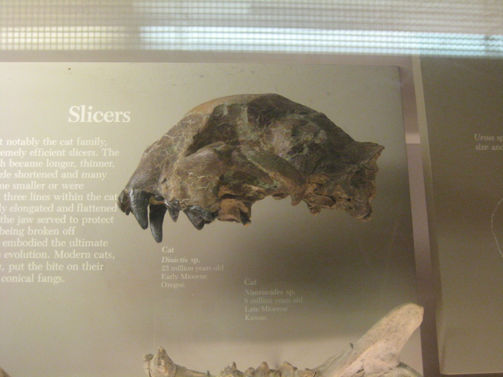 Dinictis skull, 23 million years old, Early Miocene